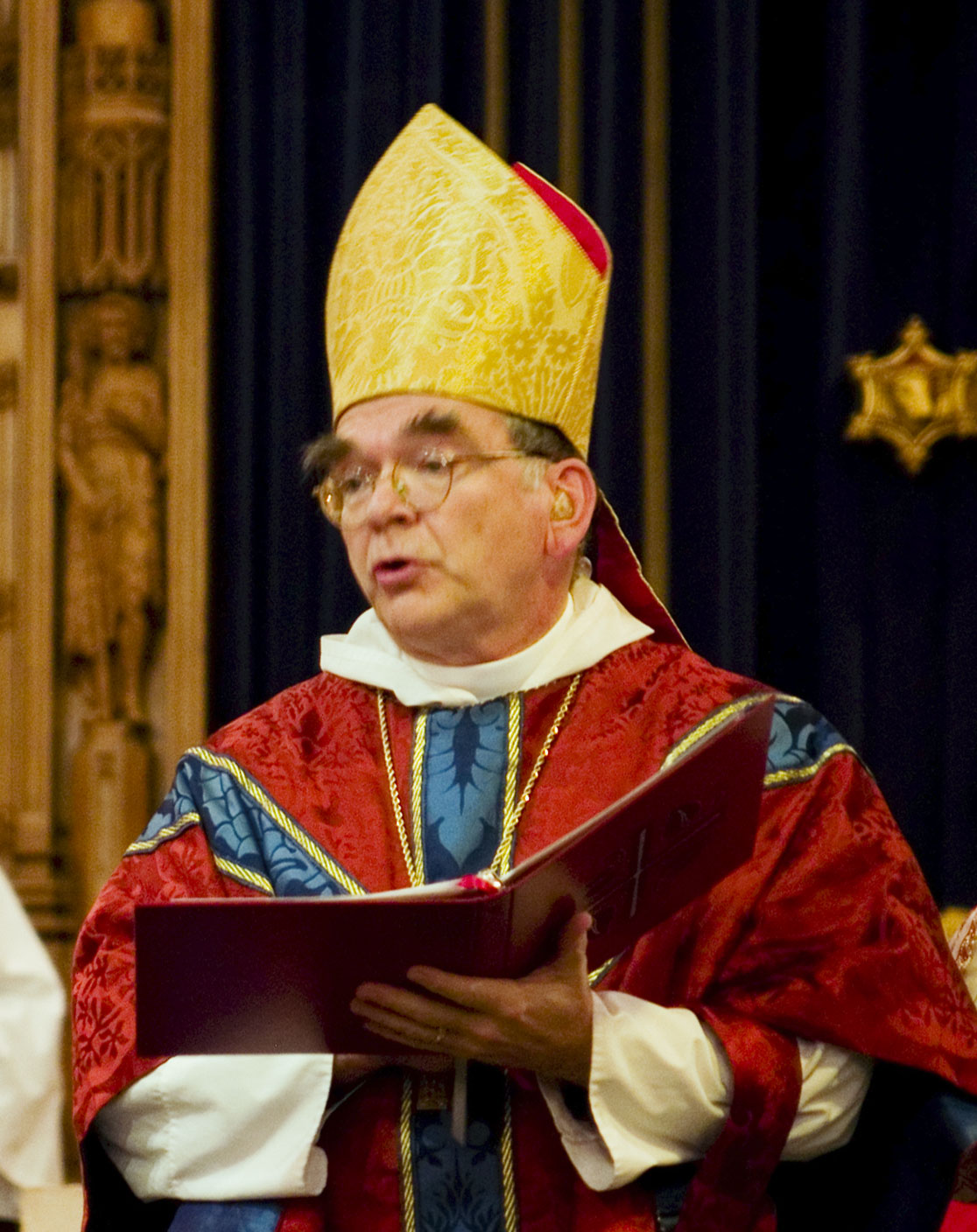 Archbishop (2009-2014) Robert Duncan of the Anglican Church in North America presides at the ordination to the priesthood of Michael McGhee in the Anglican Diocese of Pittsburgh, January 10, 2010.